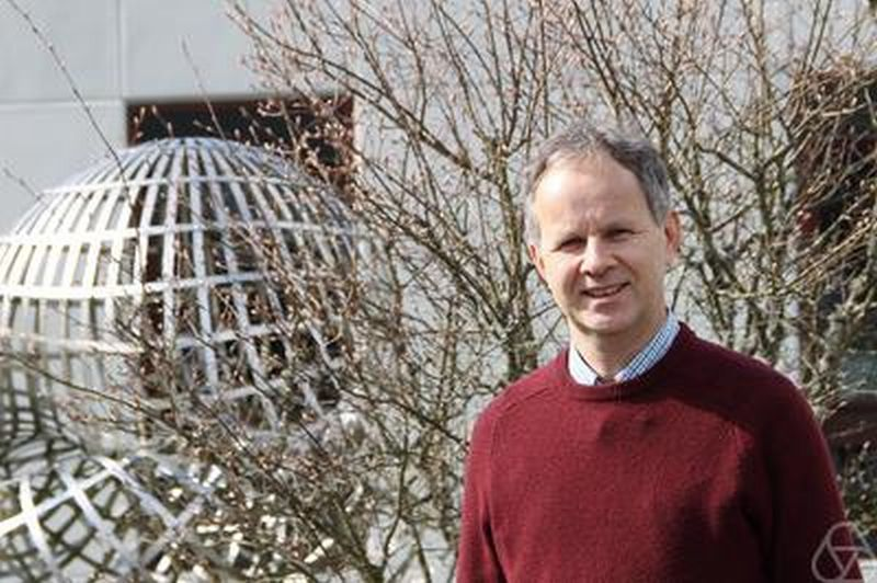 Michael Lubich, Oberwolfach 2016